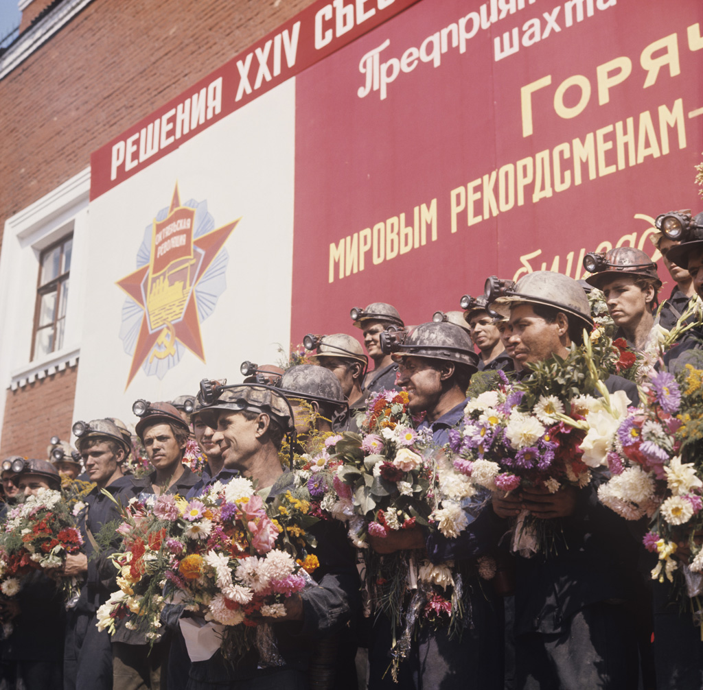 “Youth-Komsomol miners team of Ivan Strelchenko”. Mine "Trudovskaya". Youth-Komsomol miners team of Hero of Socialist Labor Ivan Strelchenko.